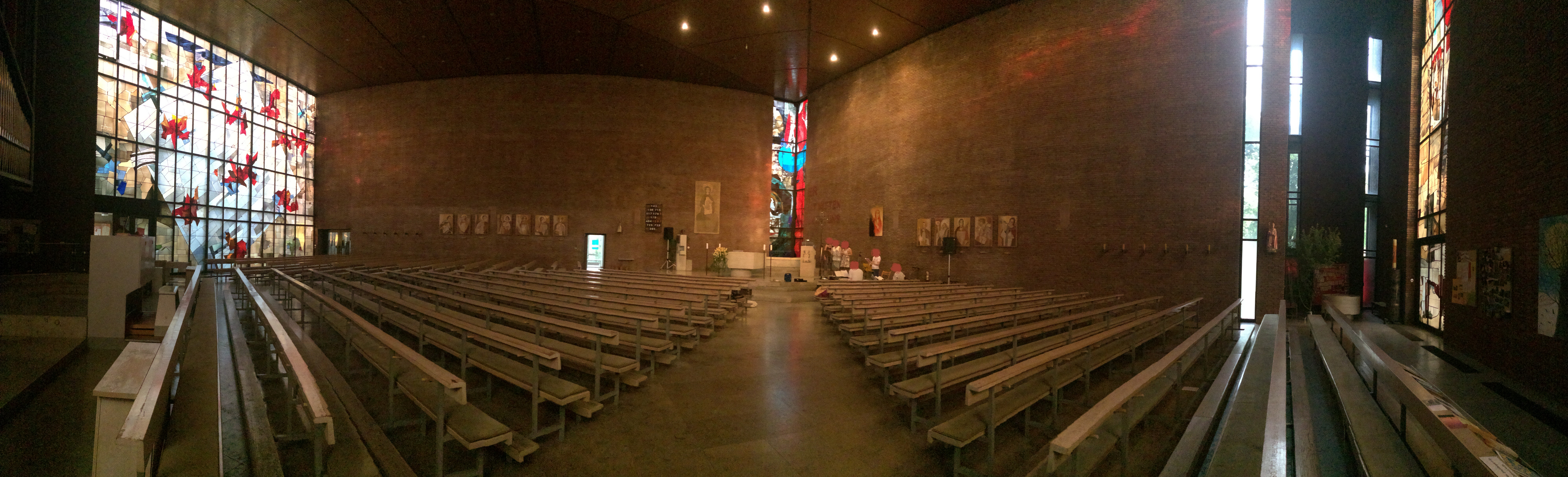 Panorama of St. Pius